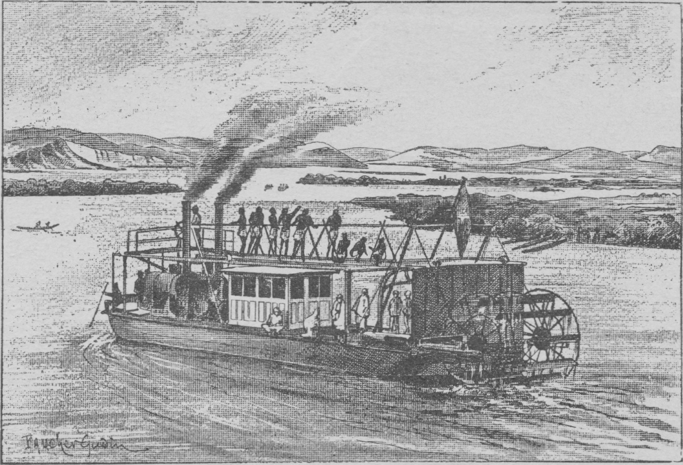 Steamship "Stanley" on Stanley Pool. From the book "Stanleys expedition till Emin Paschas undsättning" (1890) Author: Alphonse-Jules Wauters Translator: Oscar Heinrich Dumrath